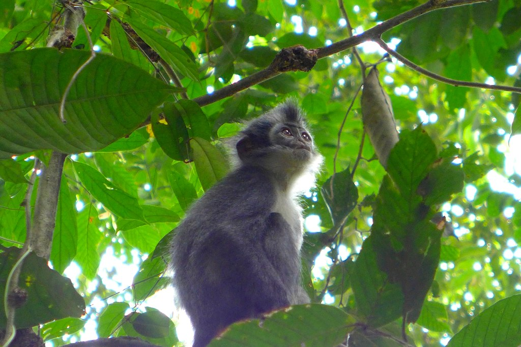 Thomas's langur (Presbytis thomasi at Bukit Lawang, Langkat Regency, North Sumatra, Indonesia